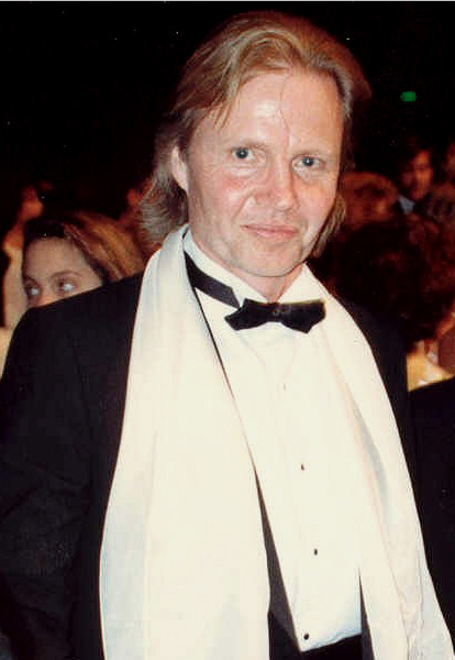 Jon Voight at the 60th Academy Awards on April 11, 1988.